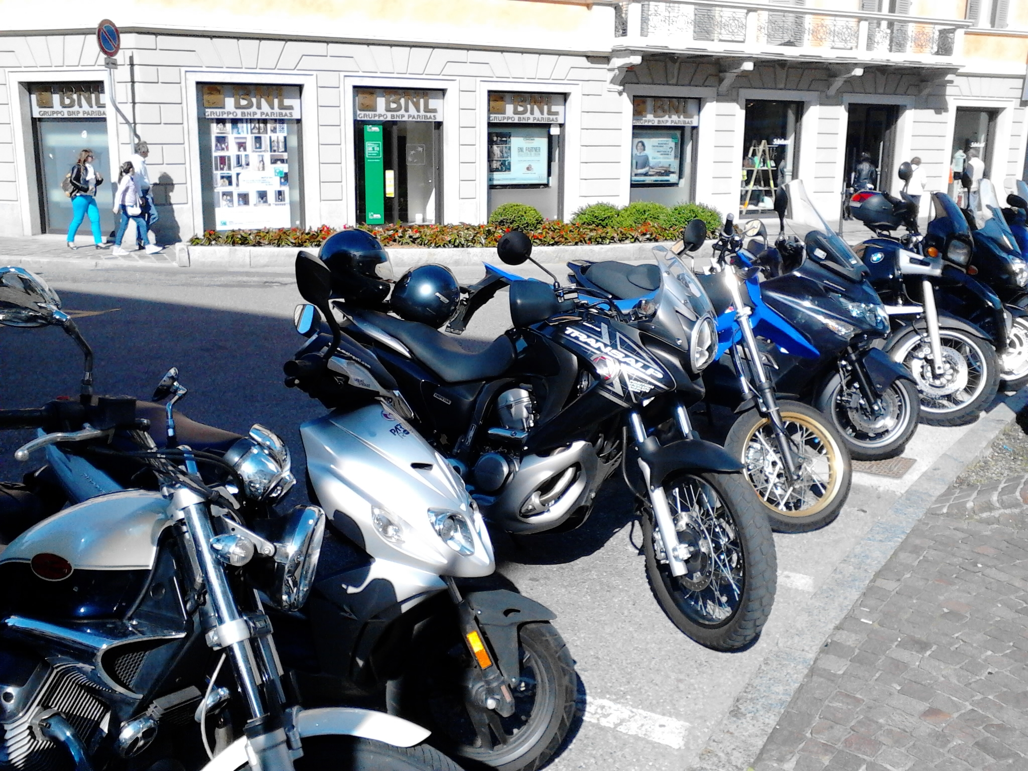 Moto Parking in Monza ITALY